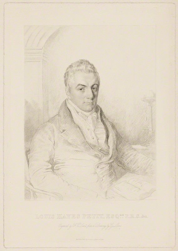 Portrait of Louis Hayes Petit (1774–1849), English barrister and politician.